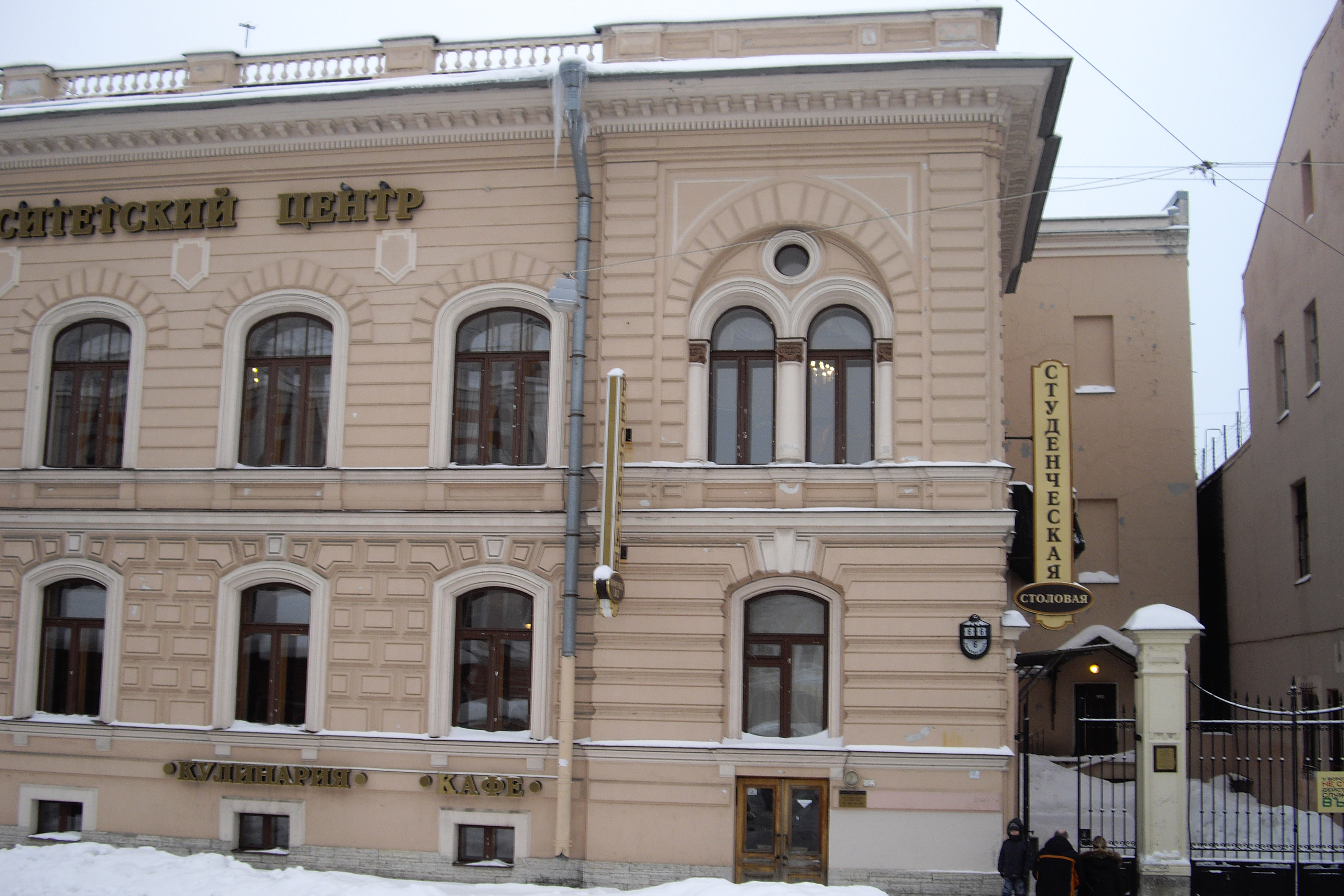 6, Birzhevaya Line in Saint Petersburg, Russia. Building of the Cultural-Social Center of the Saint-Petersburg State University.